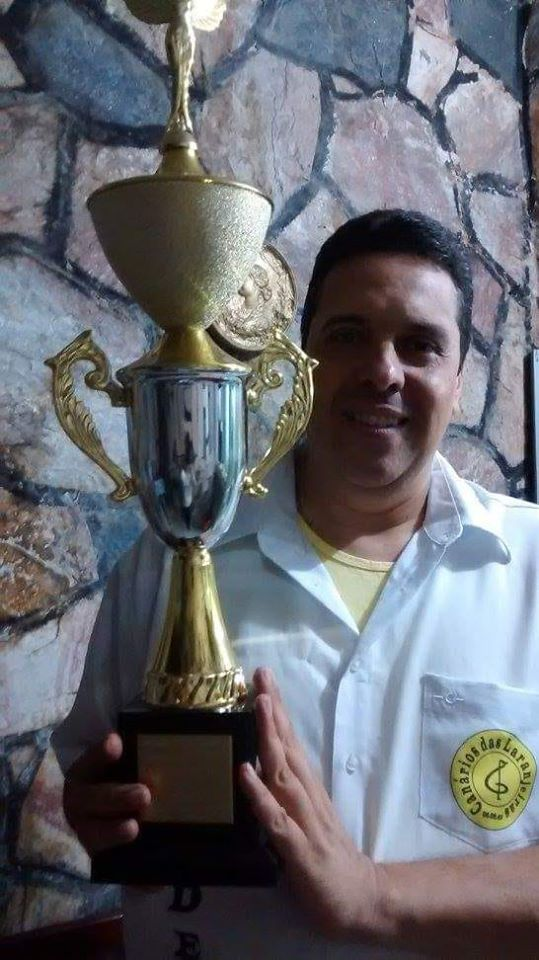 André Luiz Santos da Silva, presidente of Canários das Laranjeiras.